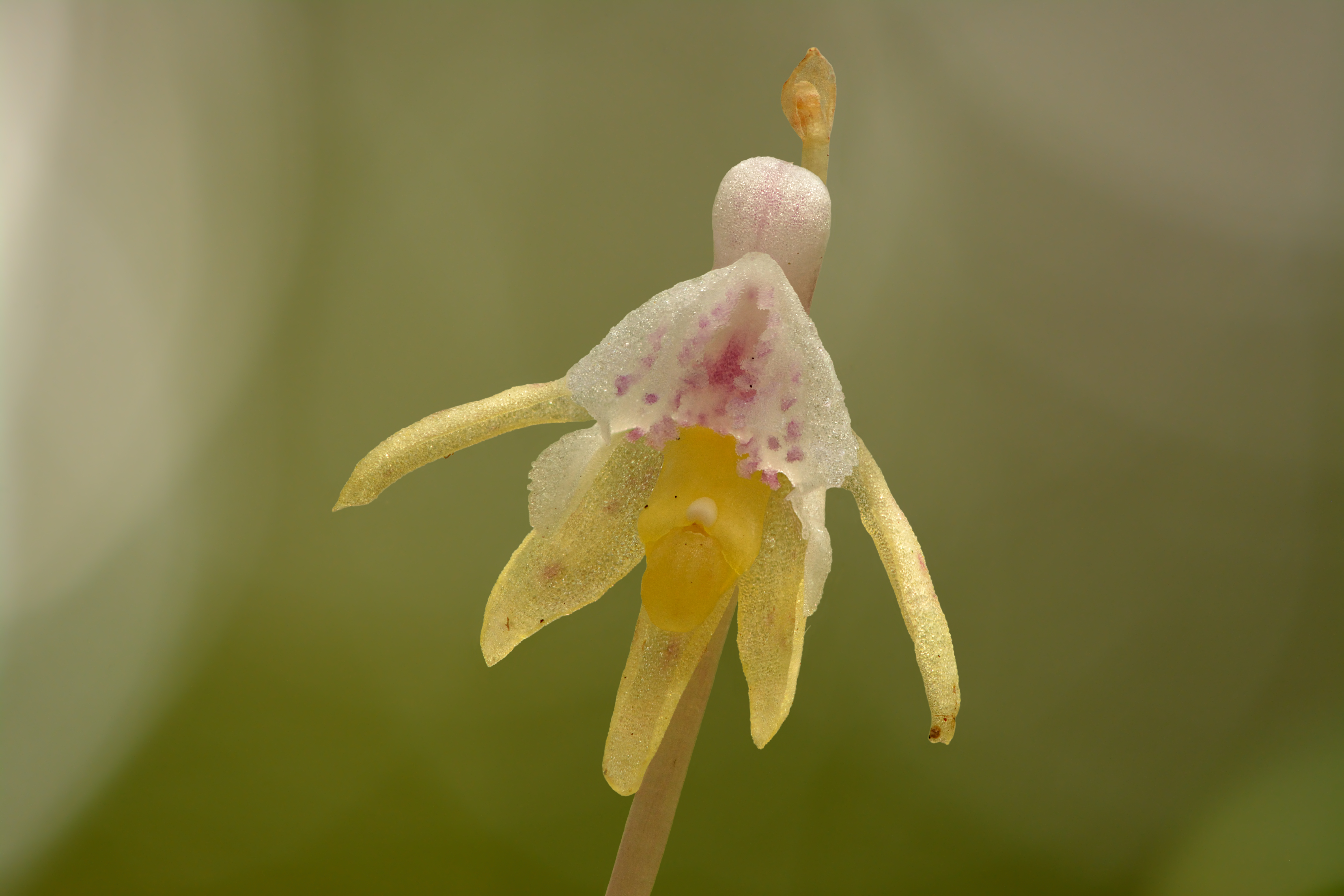 Ghost orchid. Flower size ca 20 mm